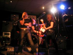 Norwegian musical group "Electric Ladyland"